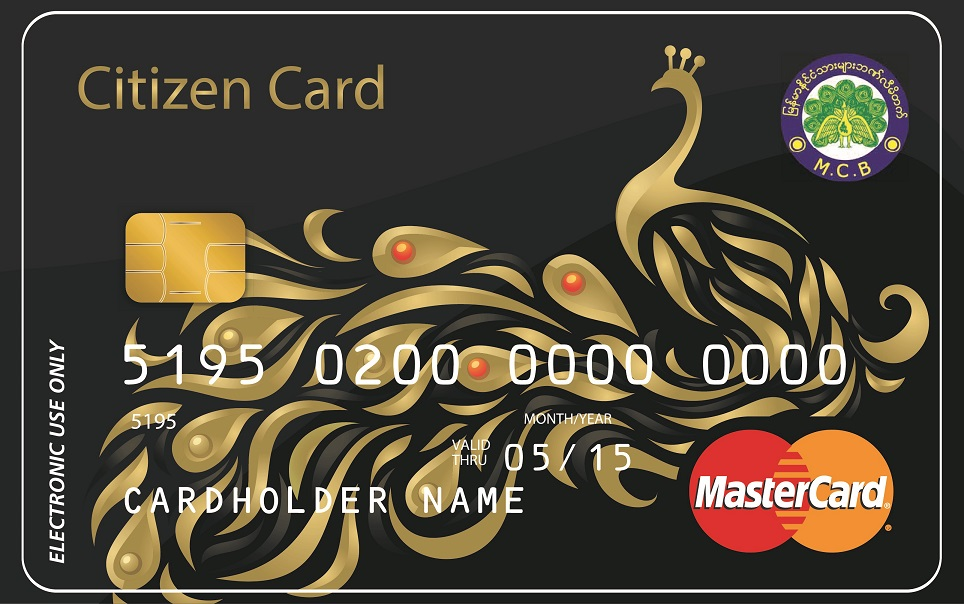 Citizen Card, Myanmar's first prepaid card with a virtual application.